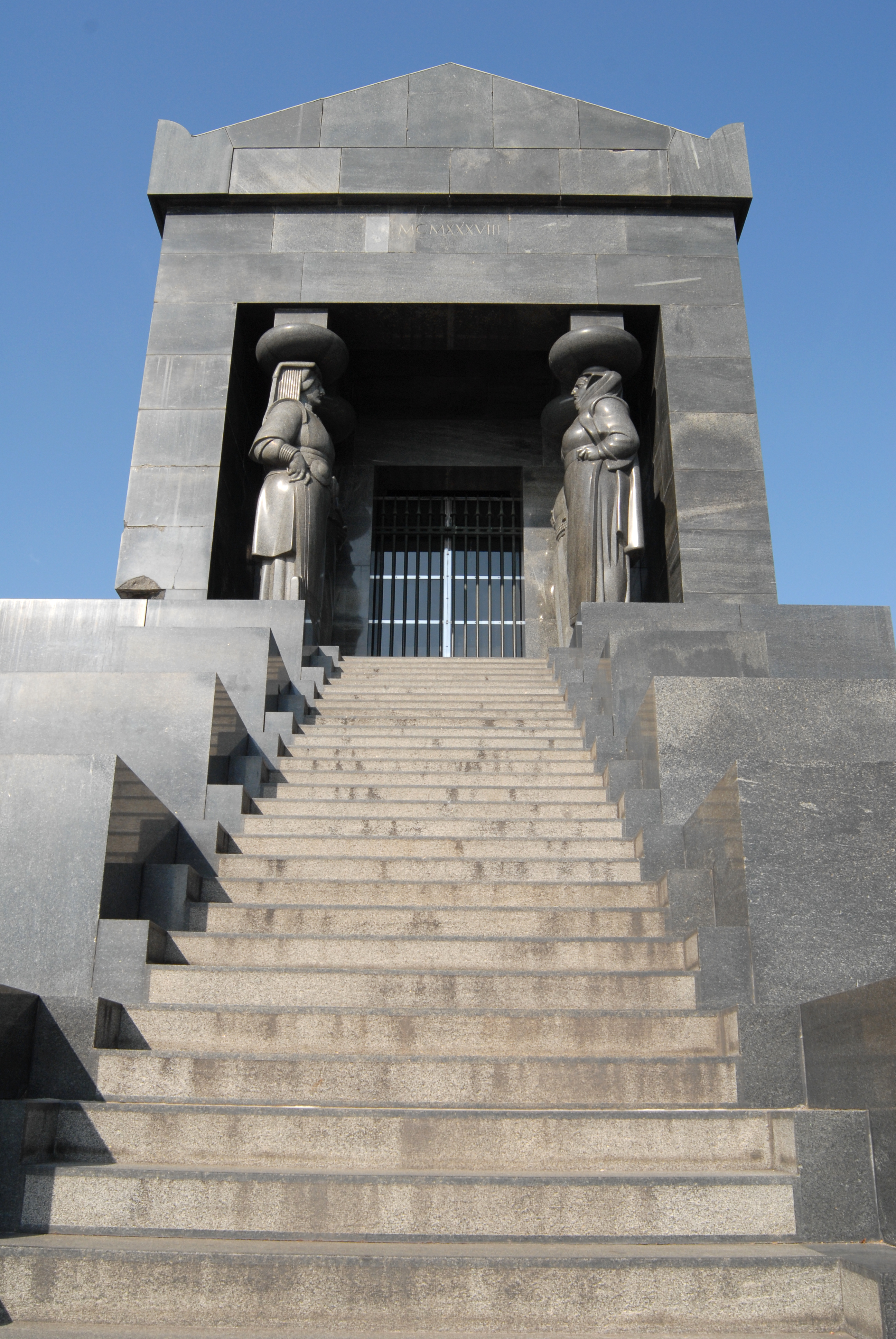 Споменик Незнаном јунаку